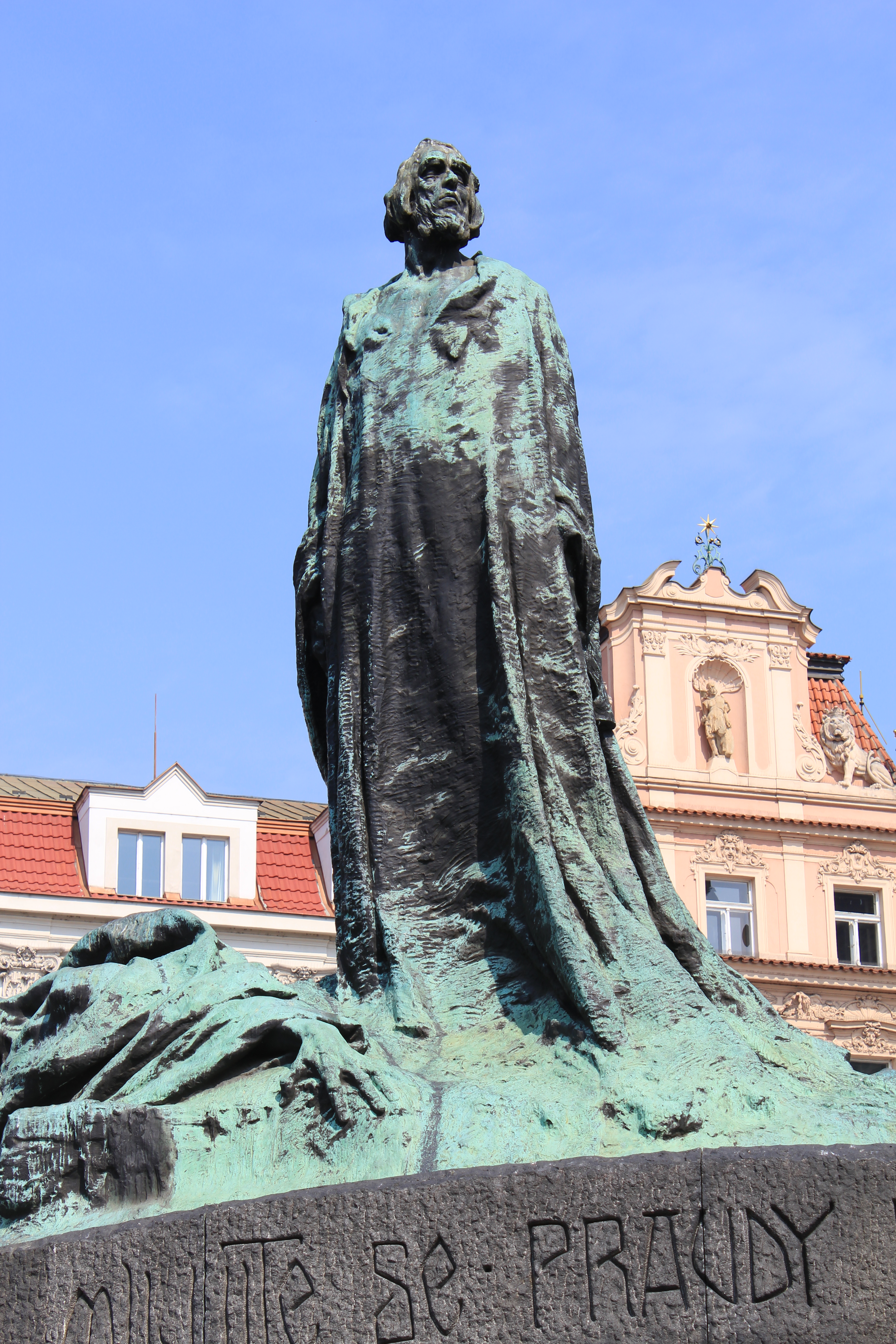 Jan Hus monument, Old Town Square in Prague.